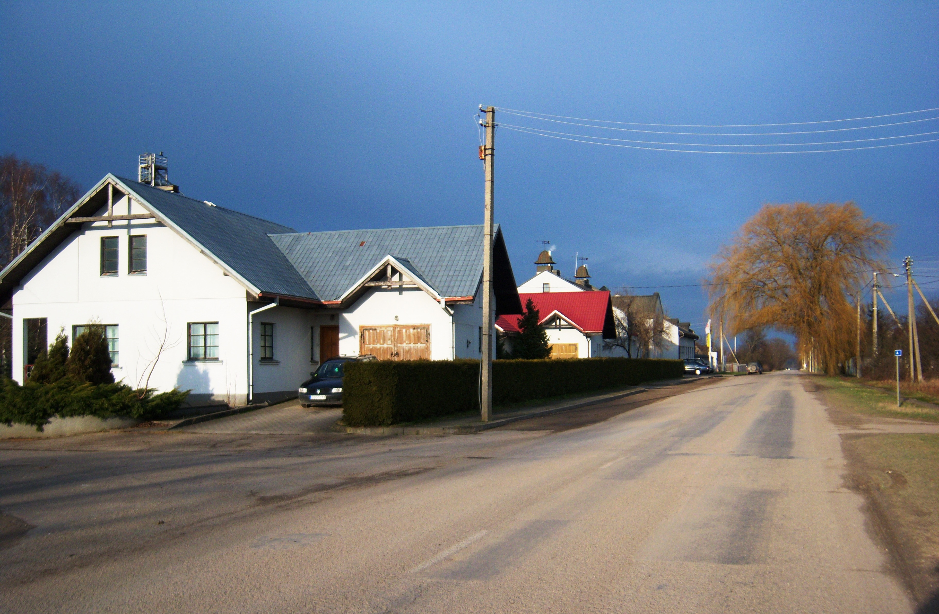 Bernatoniai, Kaunas district, Lithuania